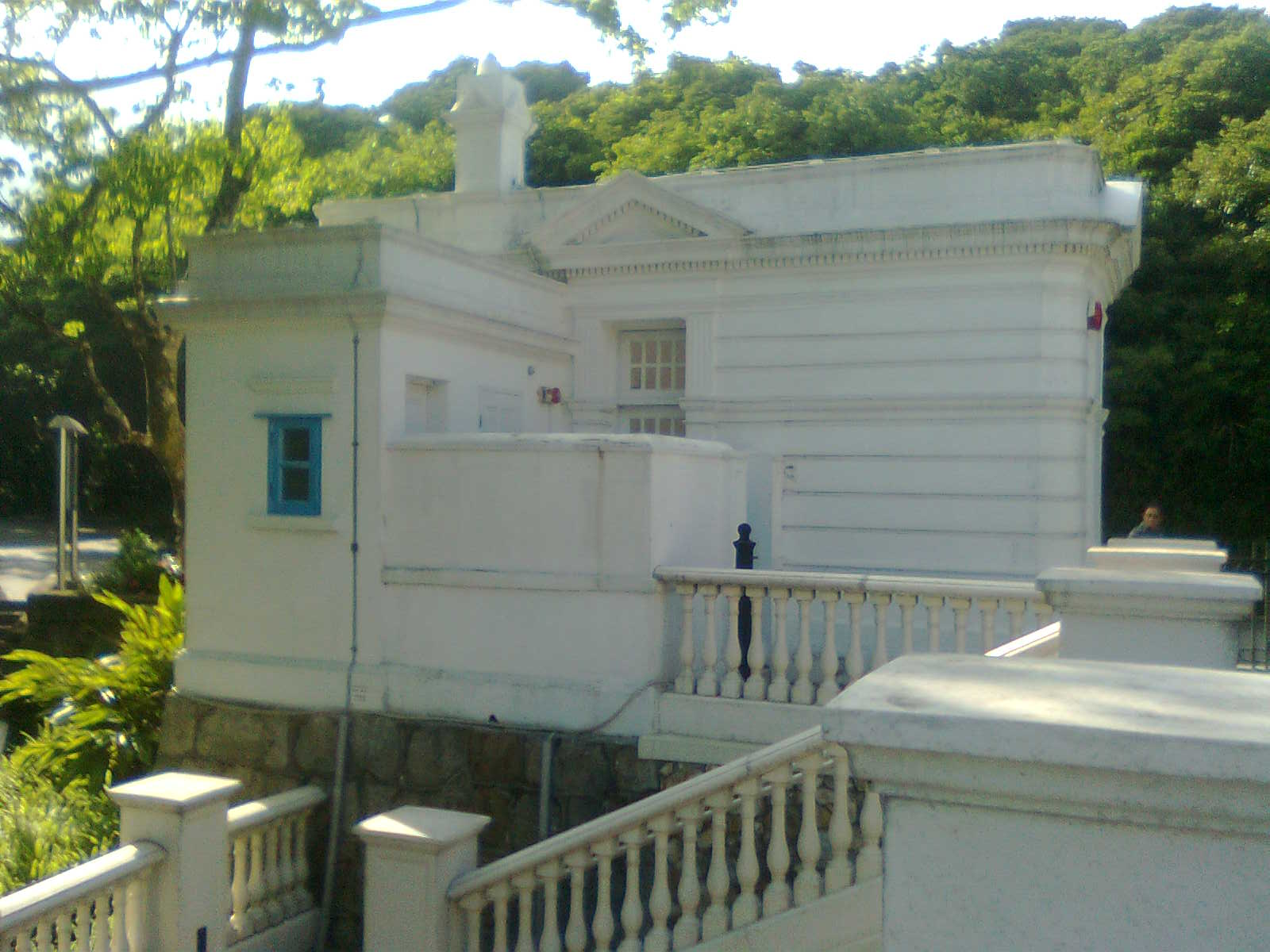 View of the back of the Gate Lodge at the Peak, Hong Kong.